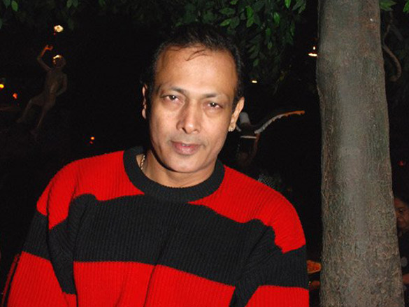 Hemant Birje at Rakhi Sawant Celebrates Her Belated Birthday At Wild Dining